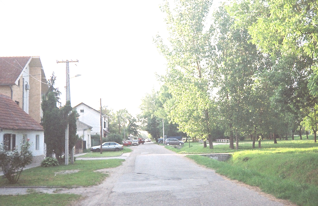 Street in Klisa / Slana Bara neighborhood in Novi Sad.